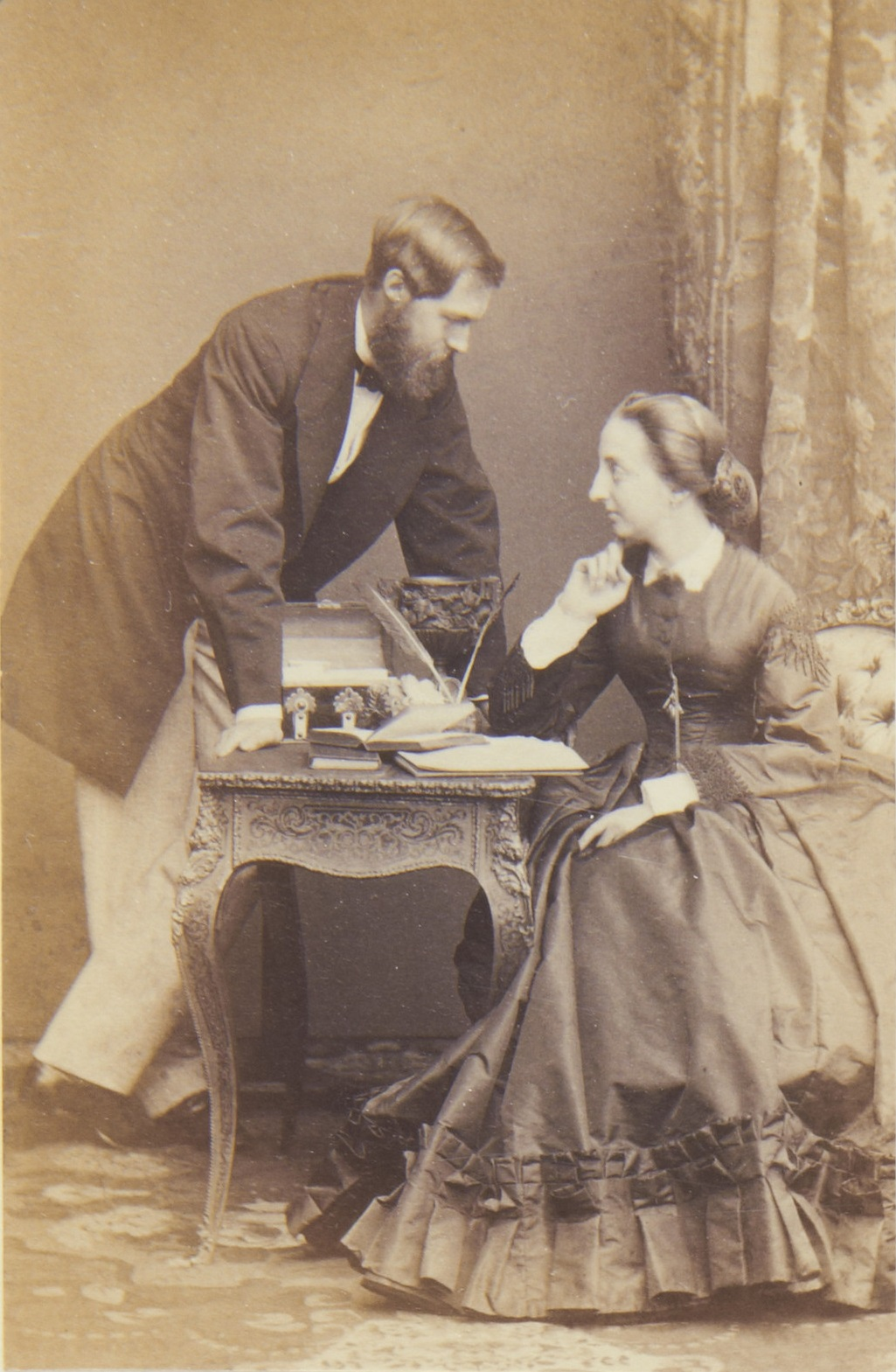 Philippe d'Orléans, Count of Paris and his wife Isabelle of Orleans